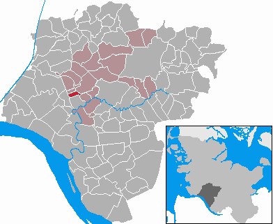 This map shows the area of the municipality Bekdorf in the Kreis (district) Steinburg, Schleswig-Holstein, Germany.